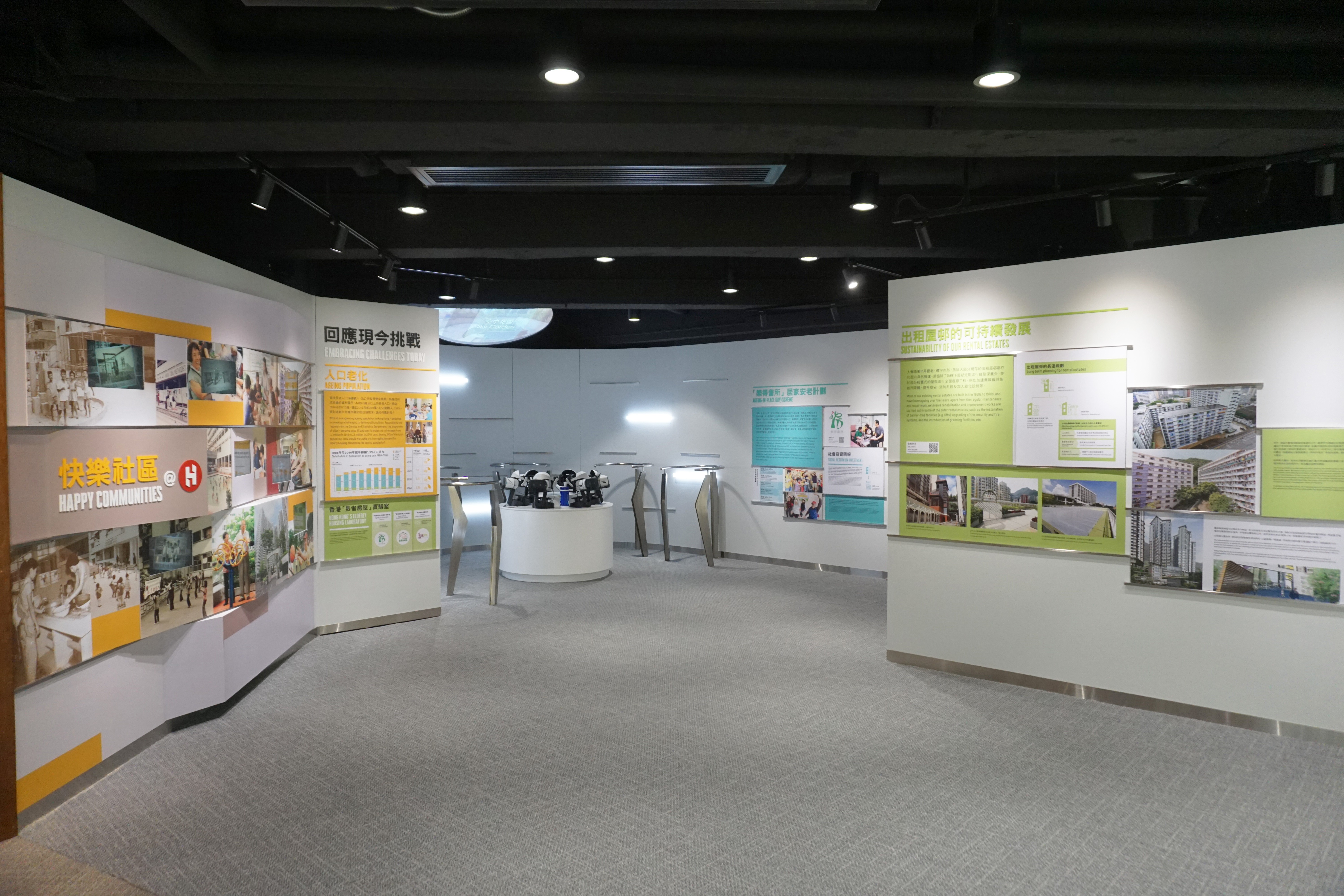 HKHS Exhibition Centre in Yau Ma Tei, Hong Kong.